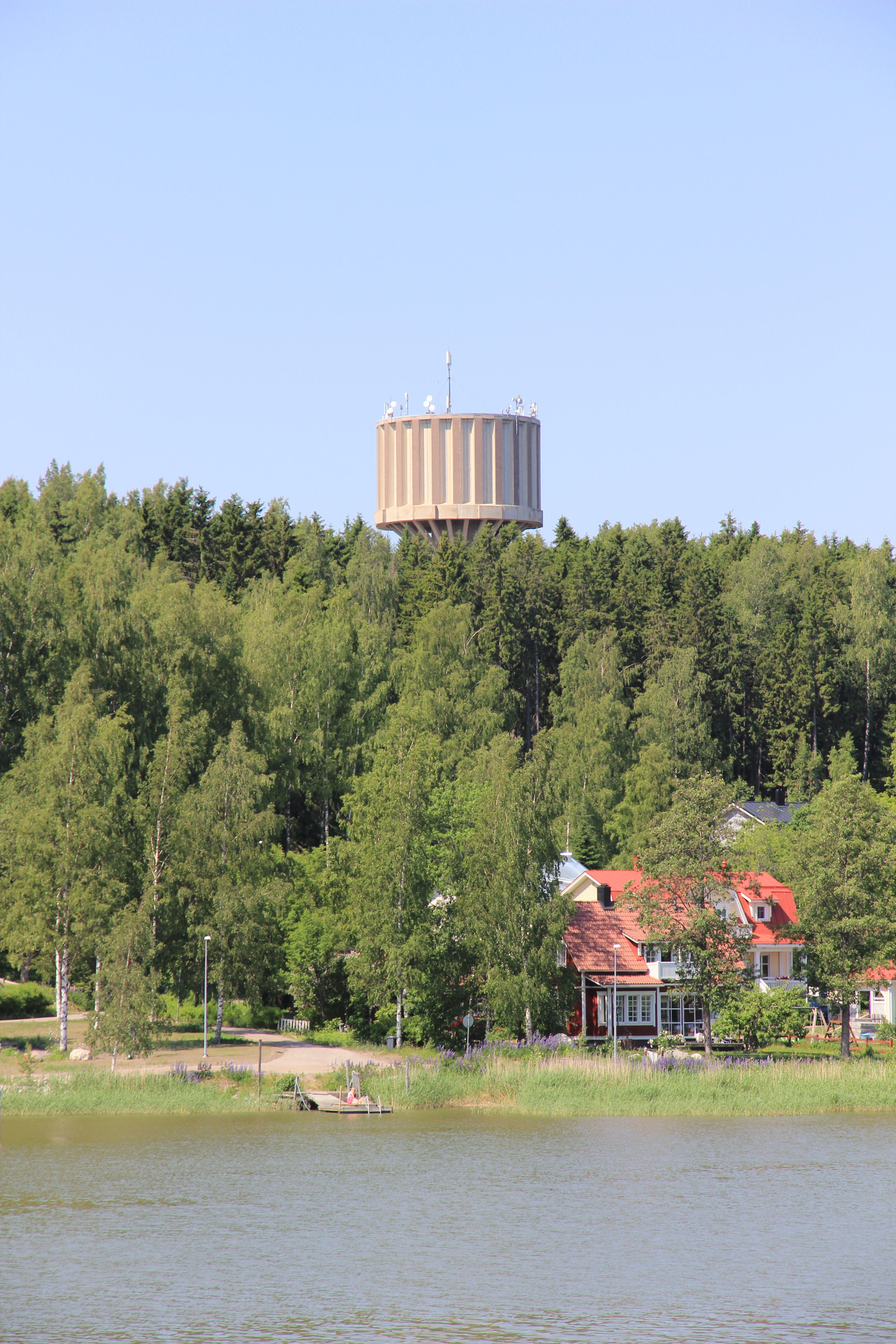 Hamari water tower.